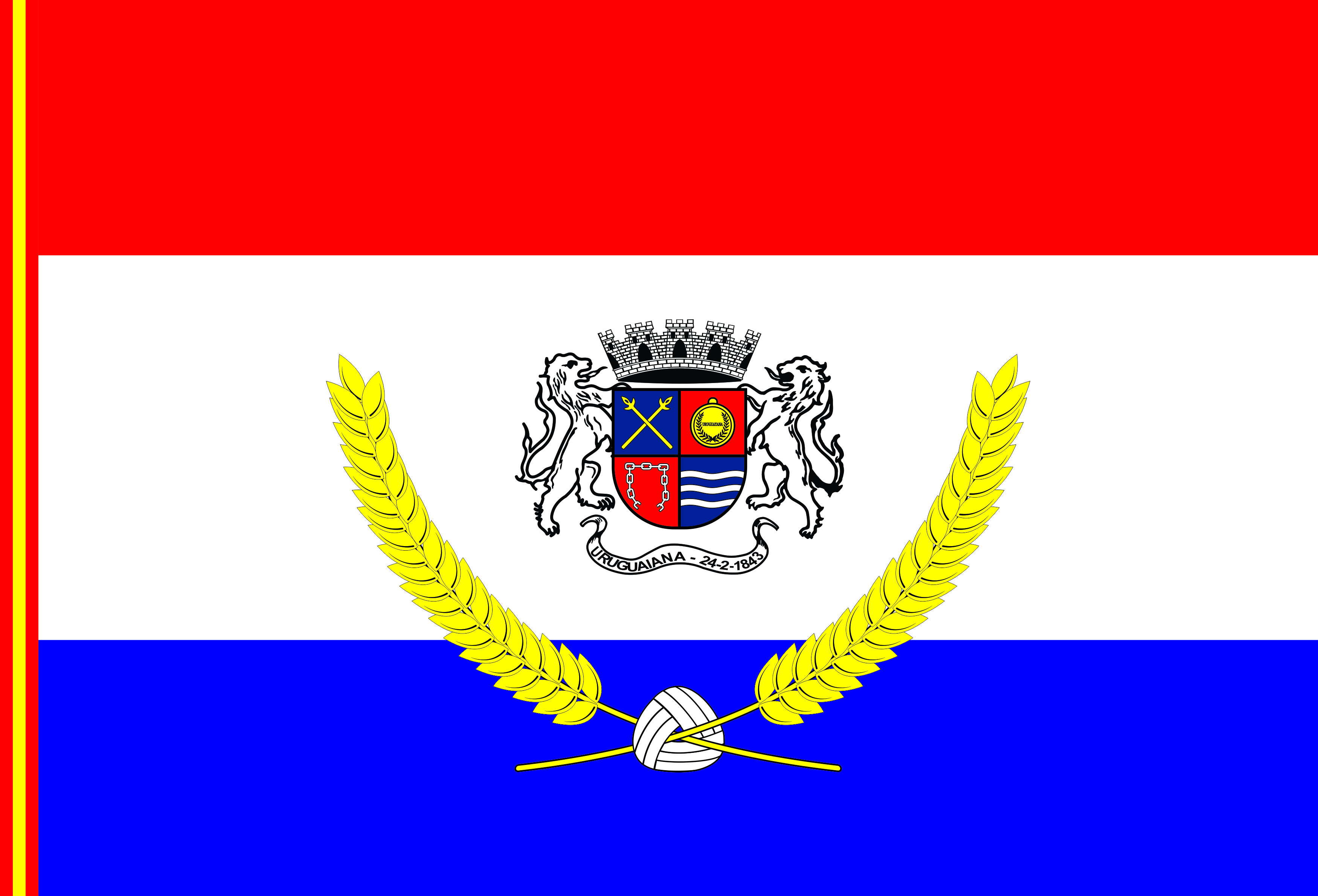 this image is from public domain